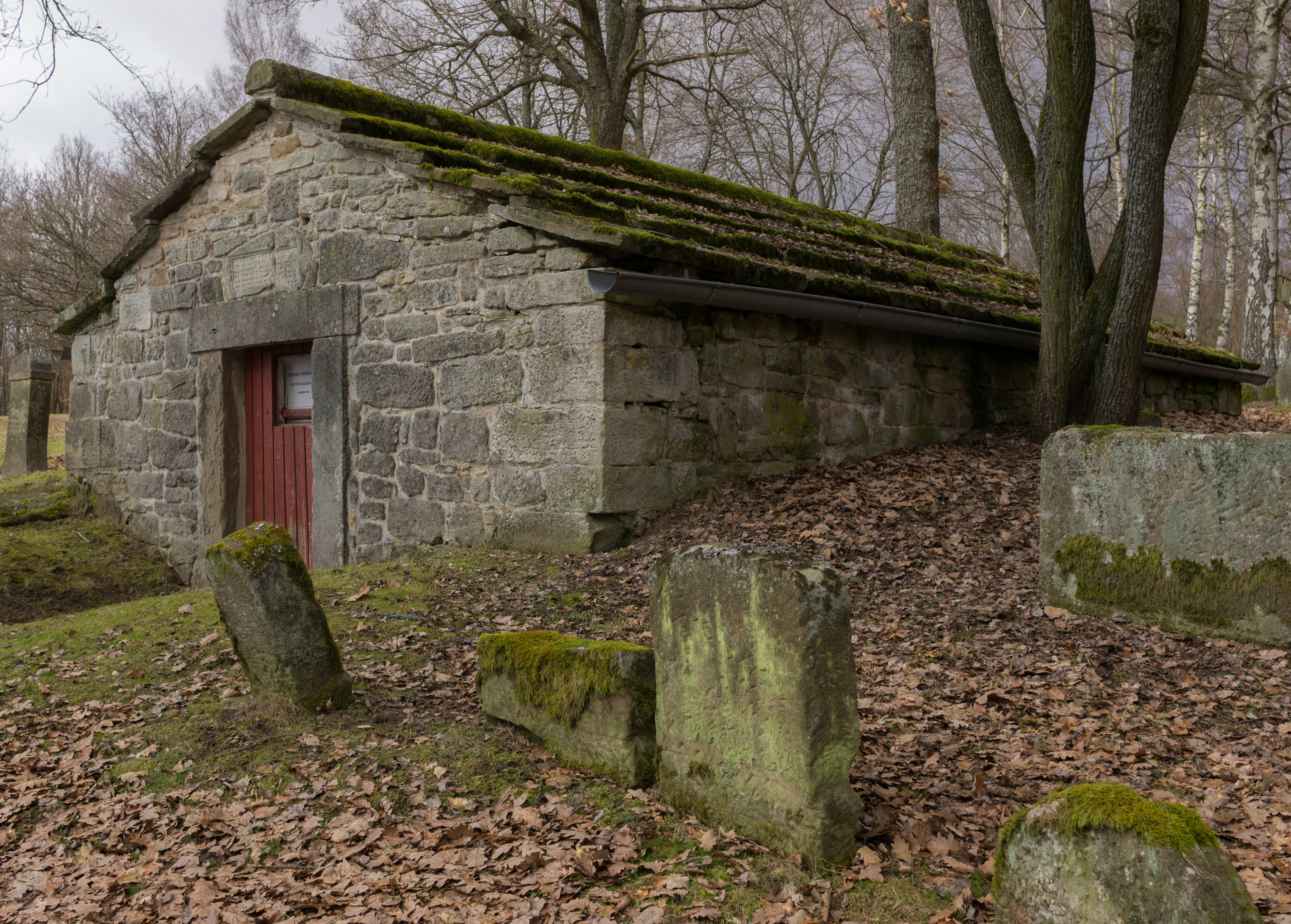 Mortuary house, jewish cemetery Kleinbardorf, county Rhön-Grabfeld, Bavaria, Germany